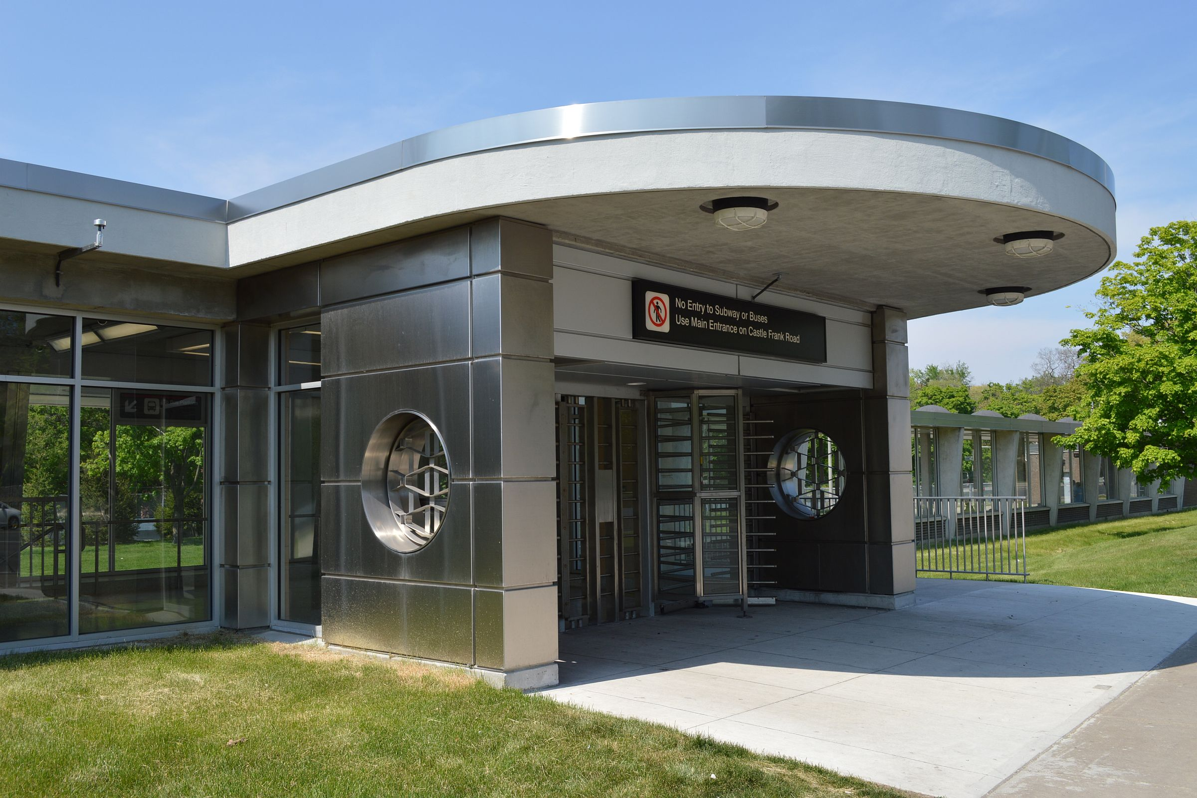 Second exit at Castle Frank TTC subway station in Toronto, which opened in 2012.